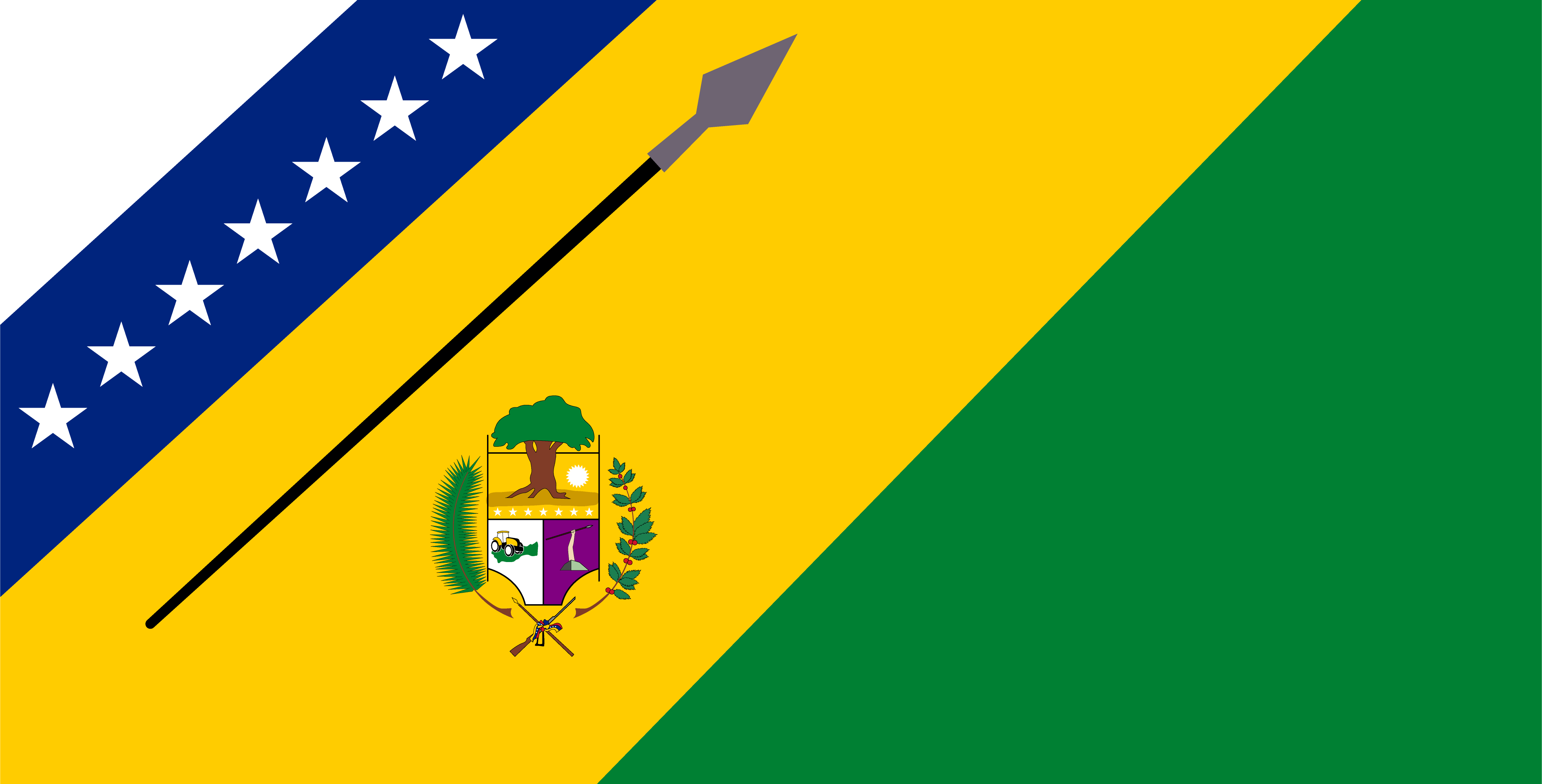 Flag of the Achaguas Municipality, Apure State, Venezuela